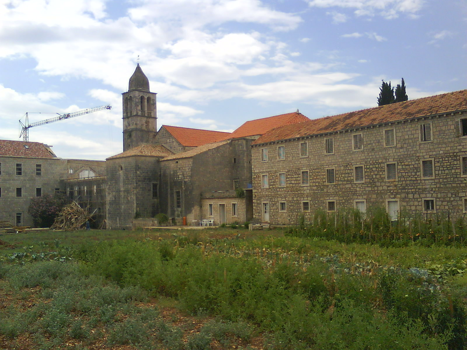 Franciscan monastery on island of Badija